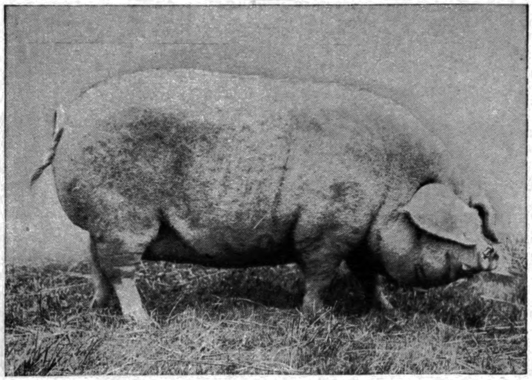 Lincolnshire Curly Coat sow, from: Robert Morrison (1928). The Individuality of the Pig: its Breeding, Feeding and Management. New York: E.P. Dutton & Company.